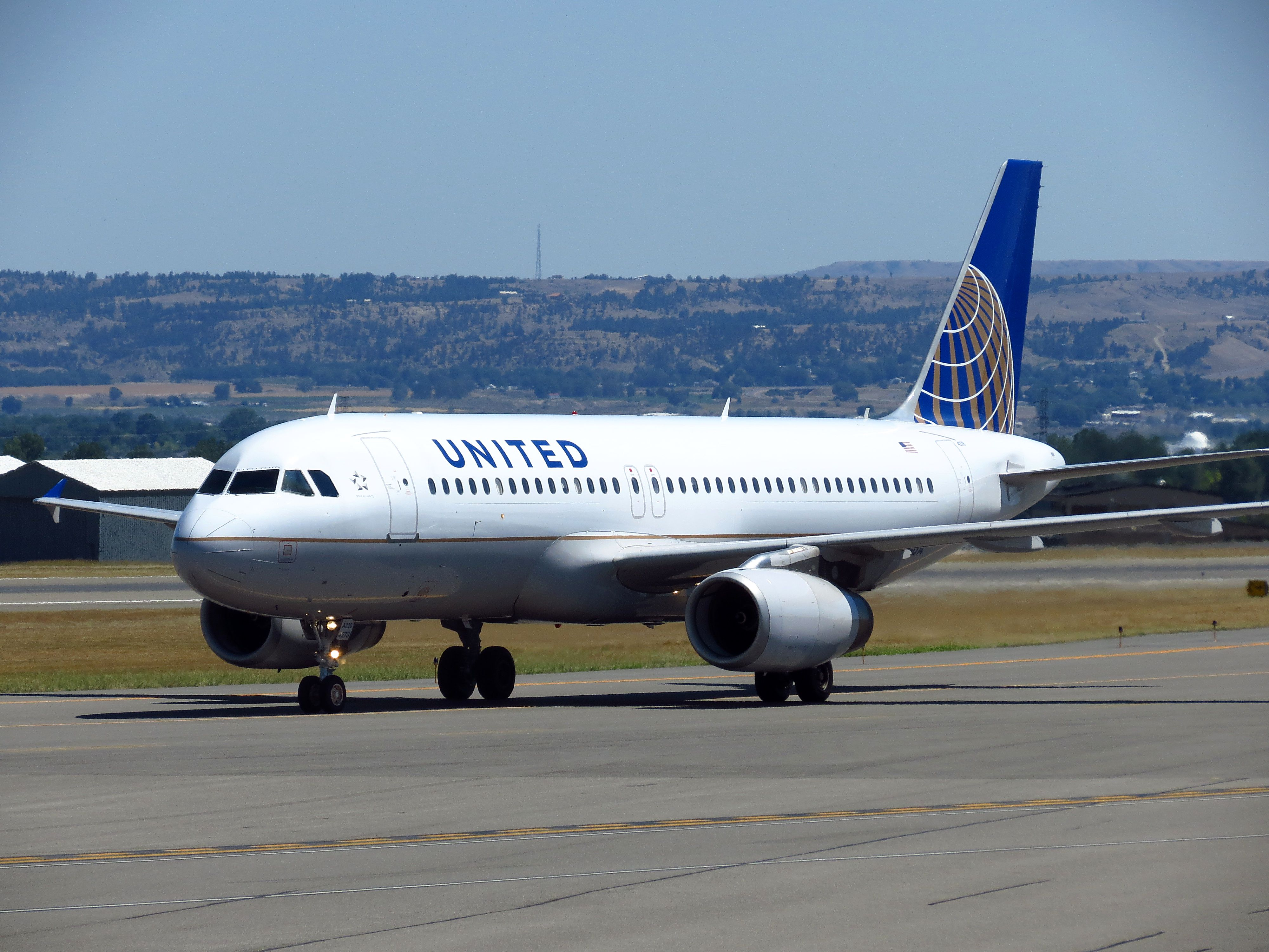 United Airlines Airbus A320-200 Billings Logan International Airport